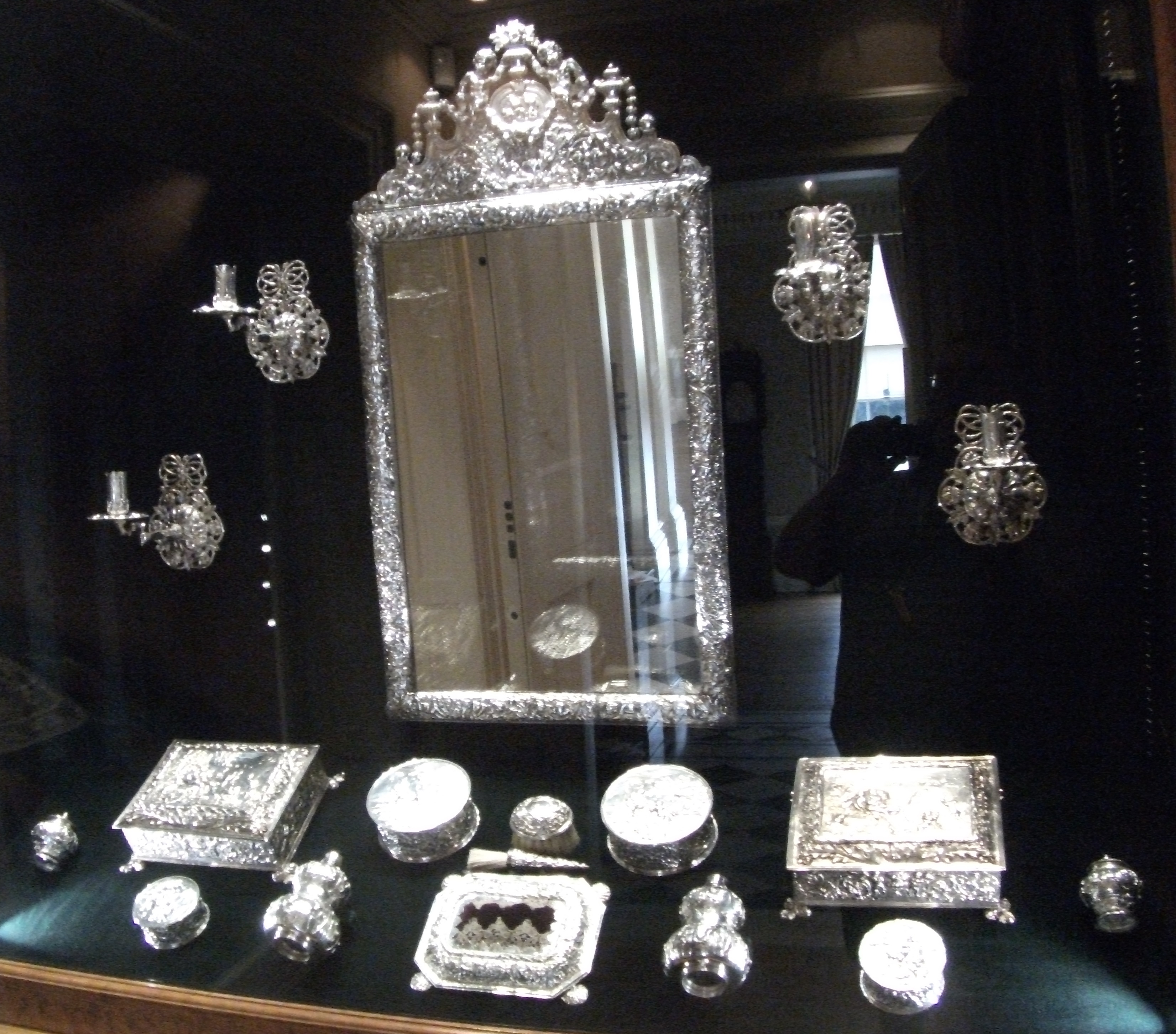 Toilet Service at Weston Park, Staffs